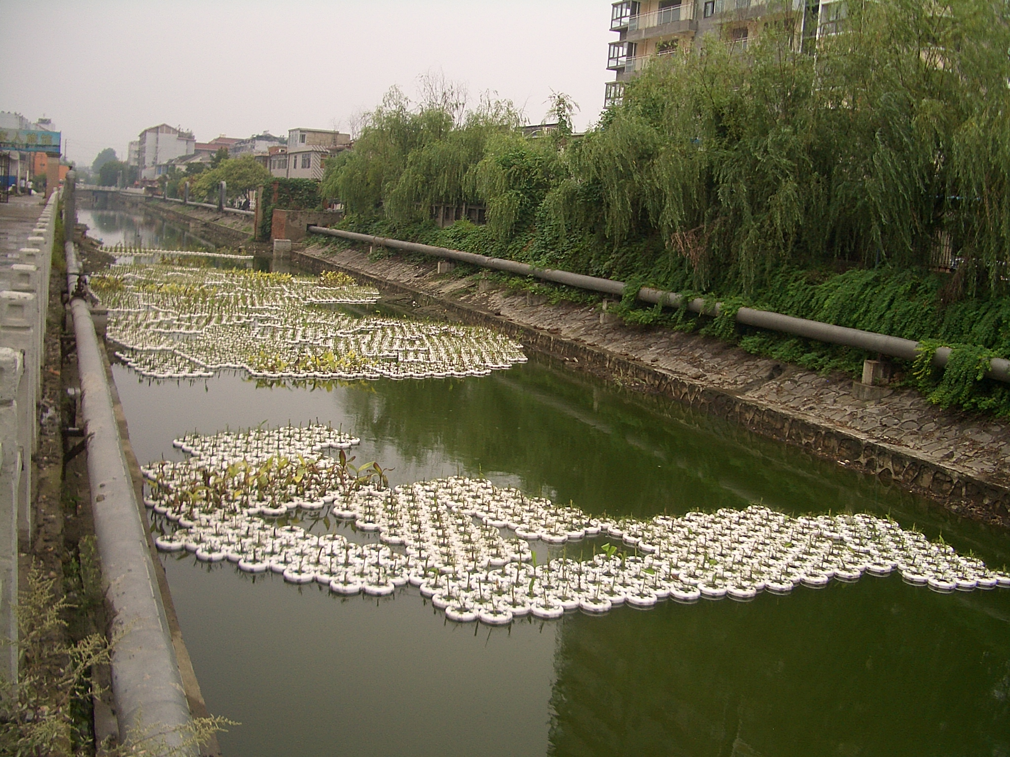 Yangzhuanghe, a canal on the west side of Yangzhou. It appears the locals are growing some kind of potted water plants in it (?)